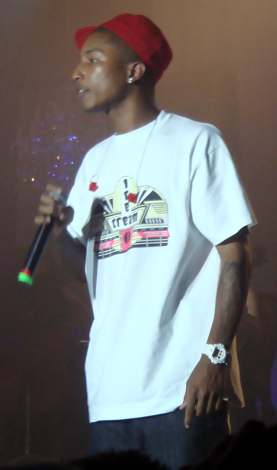 Pharrell Williams at the Nokia Theater in Times Square.